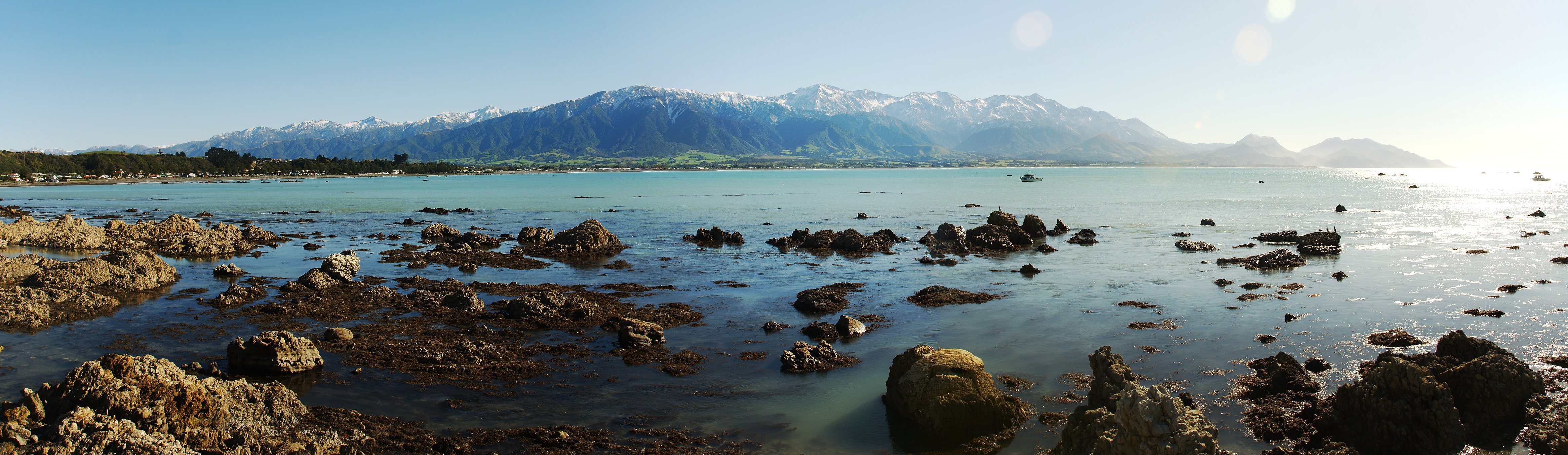 A panorama of the Seaward Kaikouras from Kaikoura